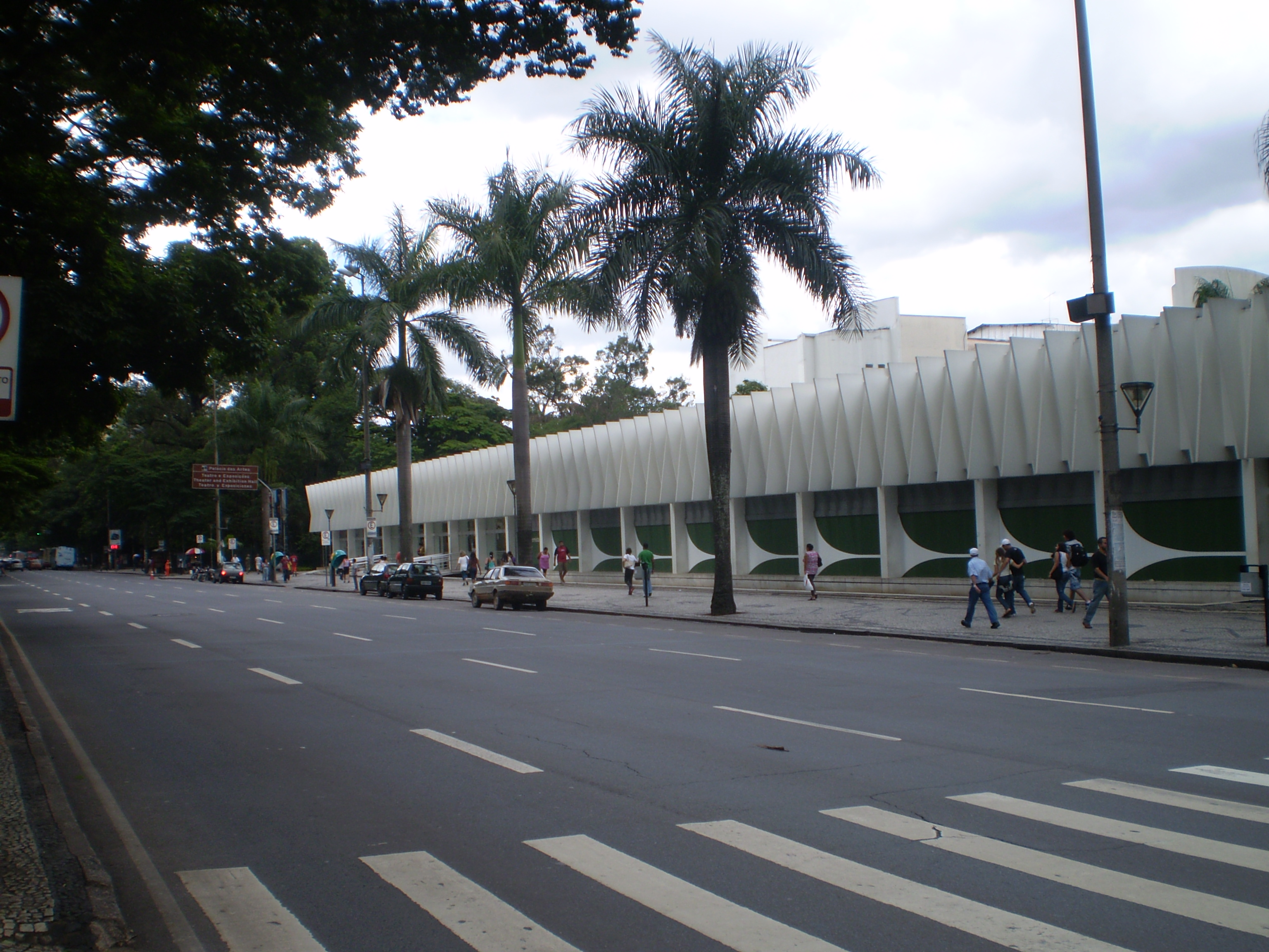 Afonso Pena Avenue and the "Palácio das Artes", Belo Horizonte, MG, Brazil